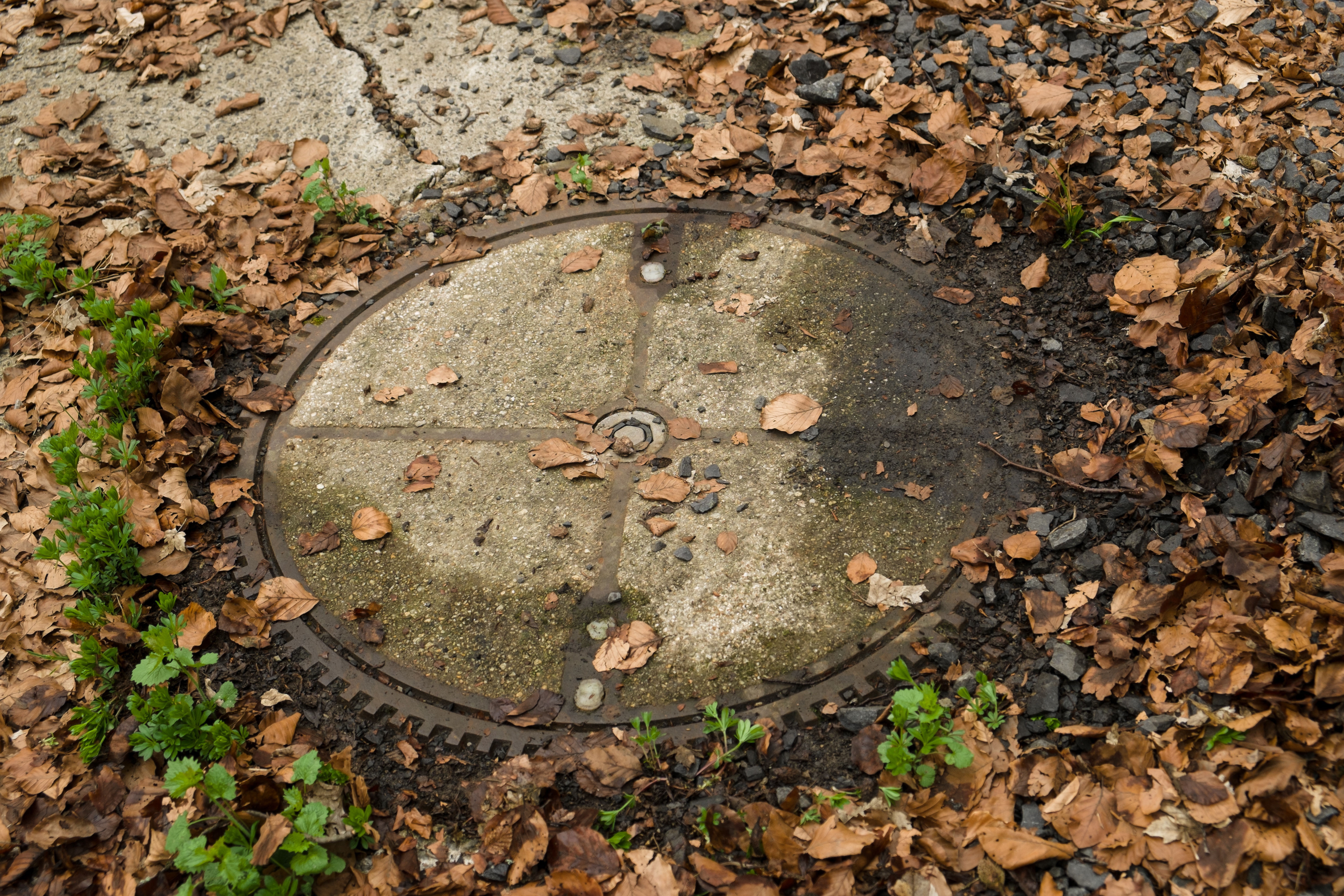 Shaft, prepared for explosives, in order to form an obstacle against Warsaw Pact-vehicles, remains from the Cold War, Bischofsheim-Haselbach, county Rhön-Grabfeld, Bavaria, Germany